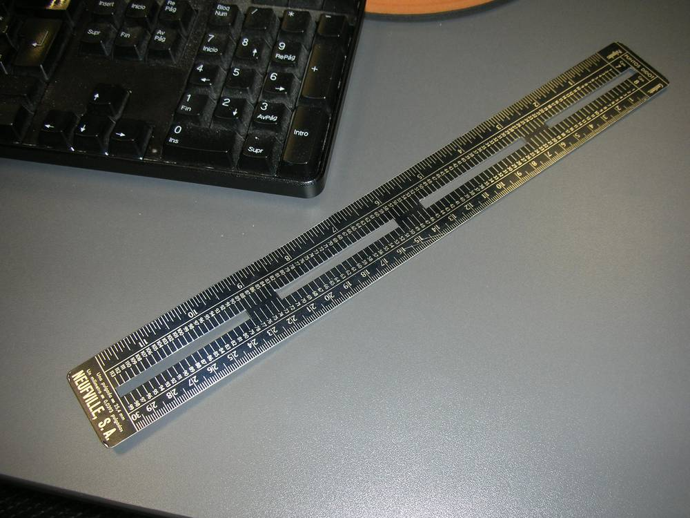 Typometer, metallic